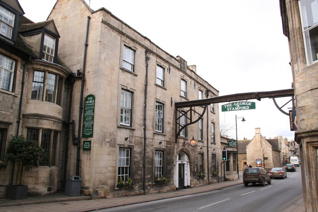 The George Hotel. The famous George at Stamford, one of England's greatest coaching Inns The Great North Road used to pass through Stamford.